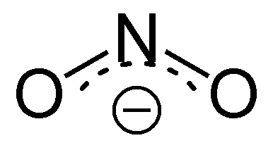 Nitrite-ion-resonance-hybrid